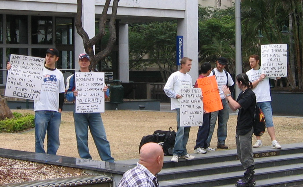 Christian fundamentalists at the Brisbane Pride March 2006